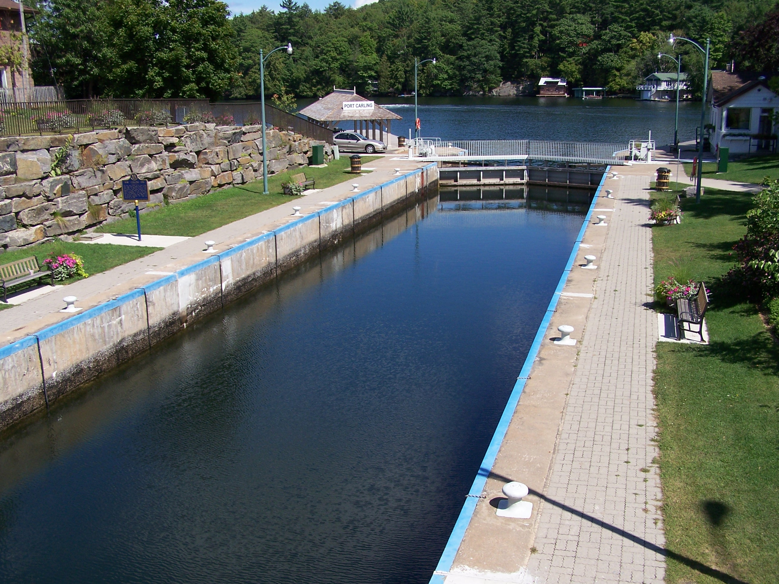 Main locks in Port Carling. Originally constructed in the 19th century to accommodate steam ships travelling from Gravenhurst, and later Bala, ferrying train passengers further up the lake system from the newly built Grand Trunk Railway. Picture is taken standing on a road draw bridge which passes over the locks and must be raised for larger ships and yachts or sailboats with masts.